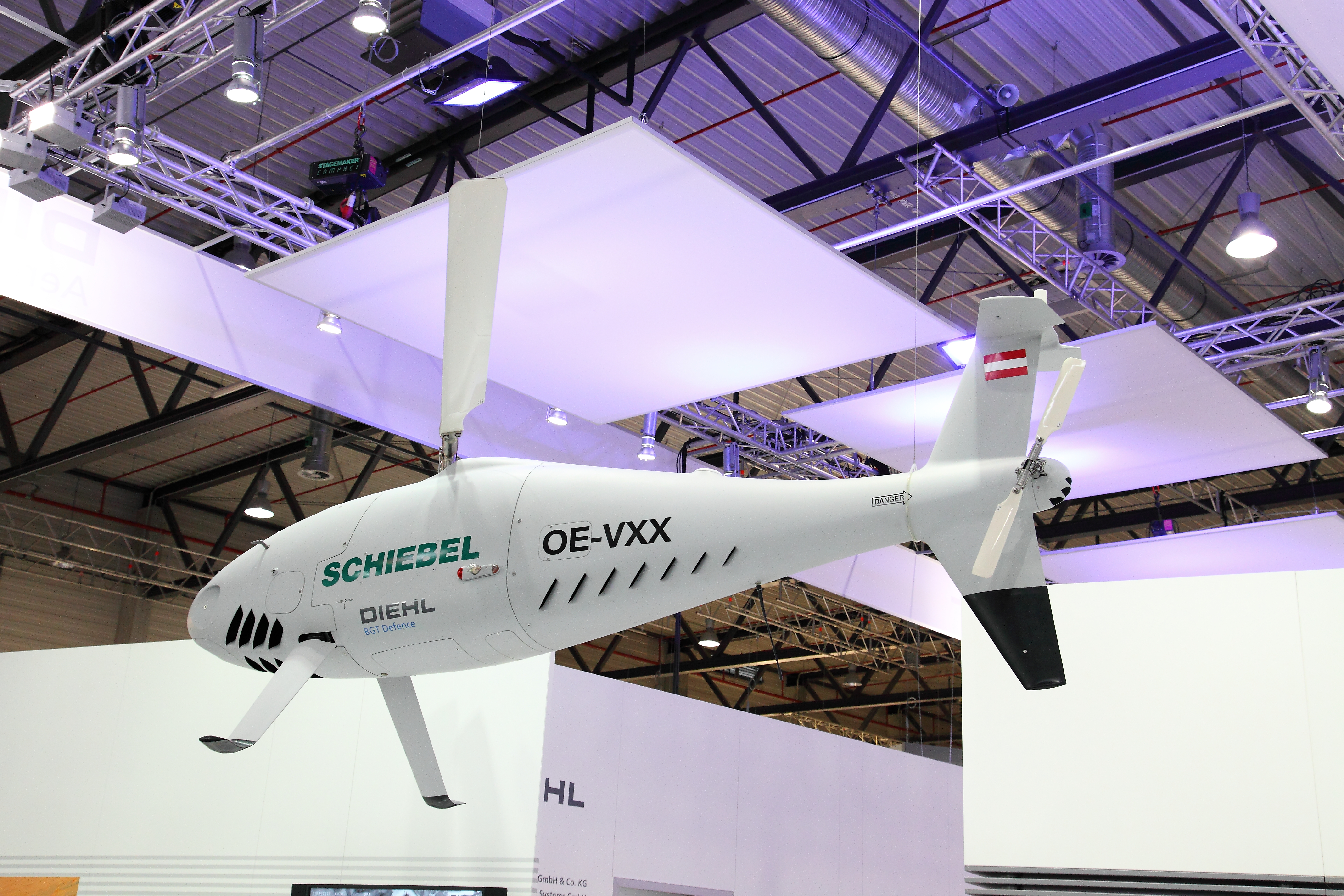 ILA Berlin Air Show 2012; Unmanned aerial vehicle helicopter; Schiebel, Diehl BGT Defence, OE-VXX